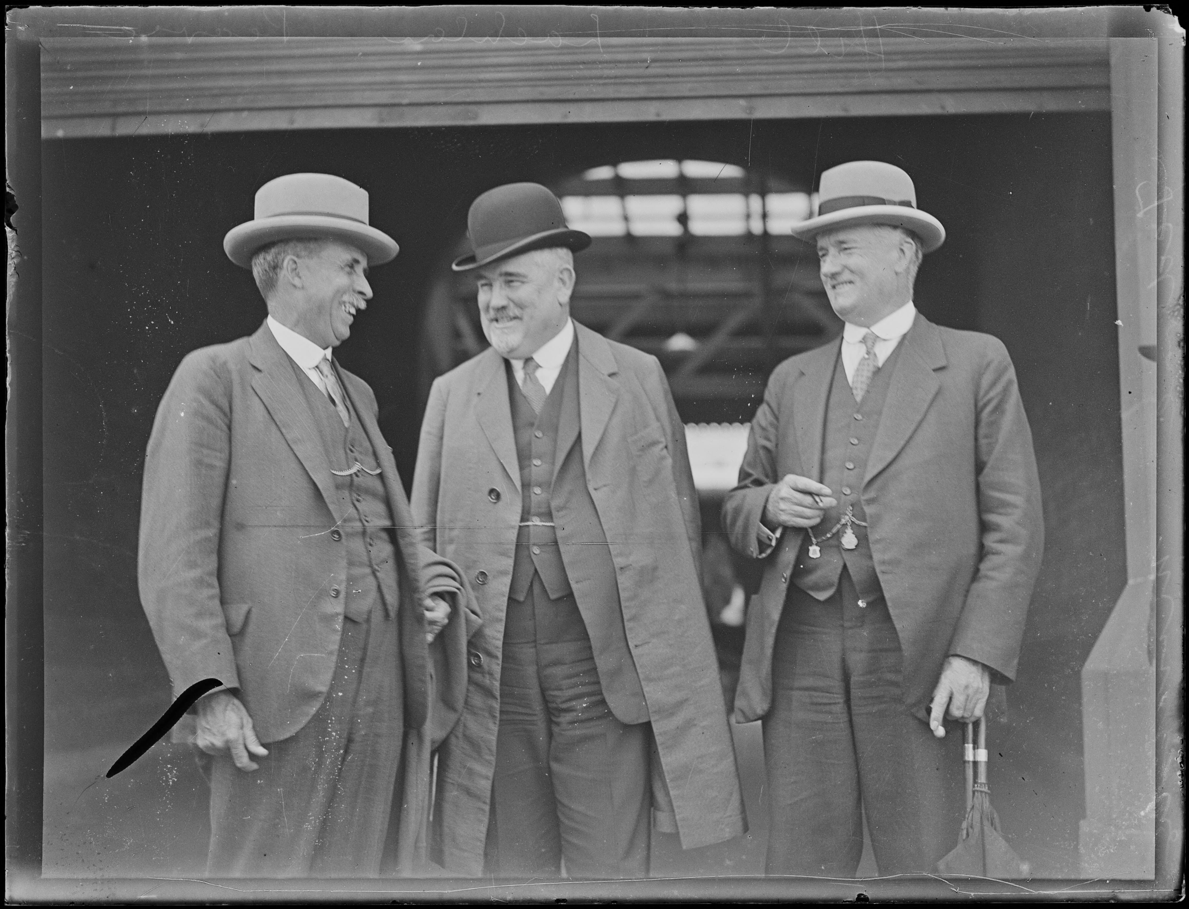 Australian politicians George Pearce, Alexander McLachlan and William Caldwell Hill